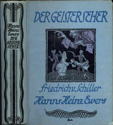 Cover of the edition of 1922 - Der Geisterseher Hanns Heinz Ewers (* 3. November 1871 in Düsseldorf; † 12. Juni 1943 in Berlin)